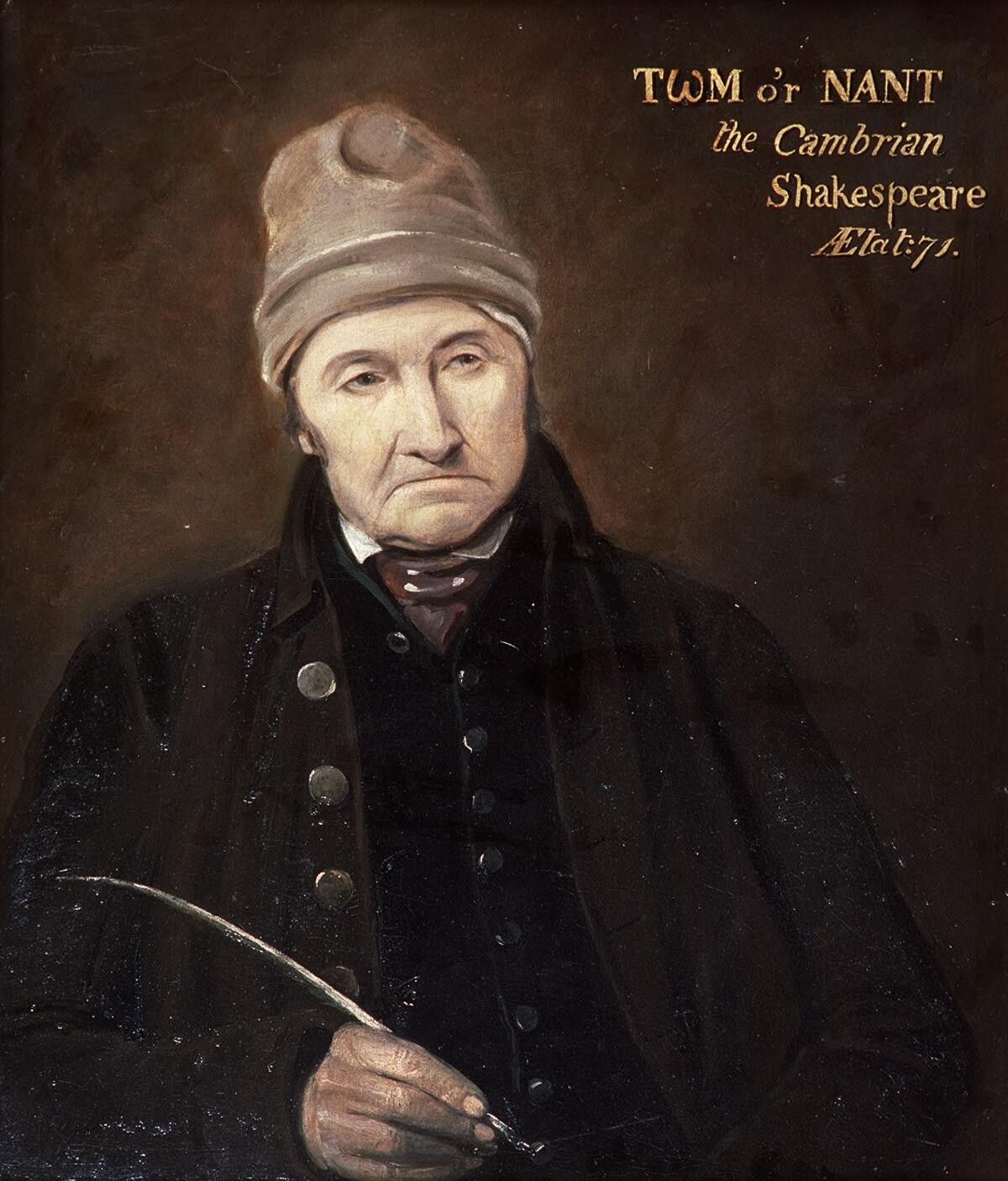 A painting from the Framed Works of Art collection at the National Library of wales.